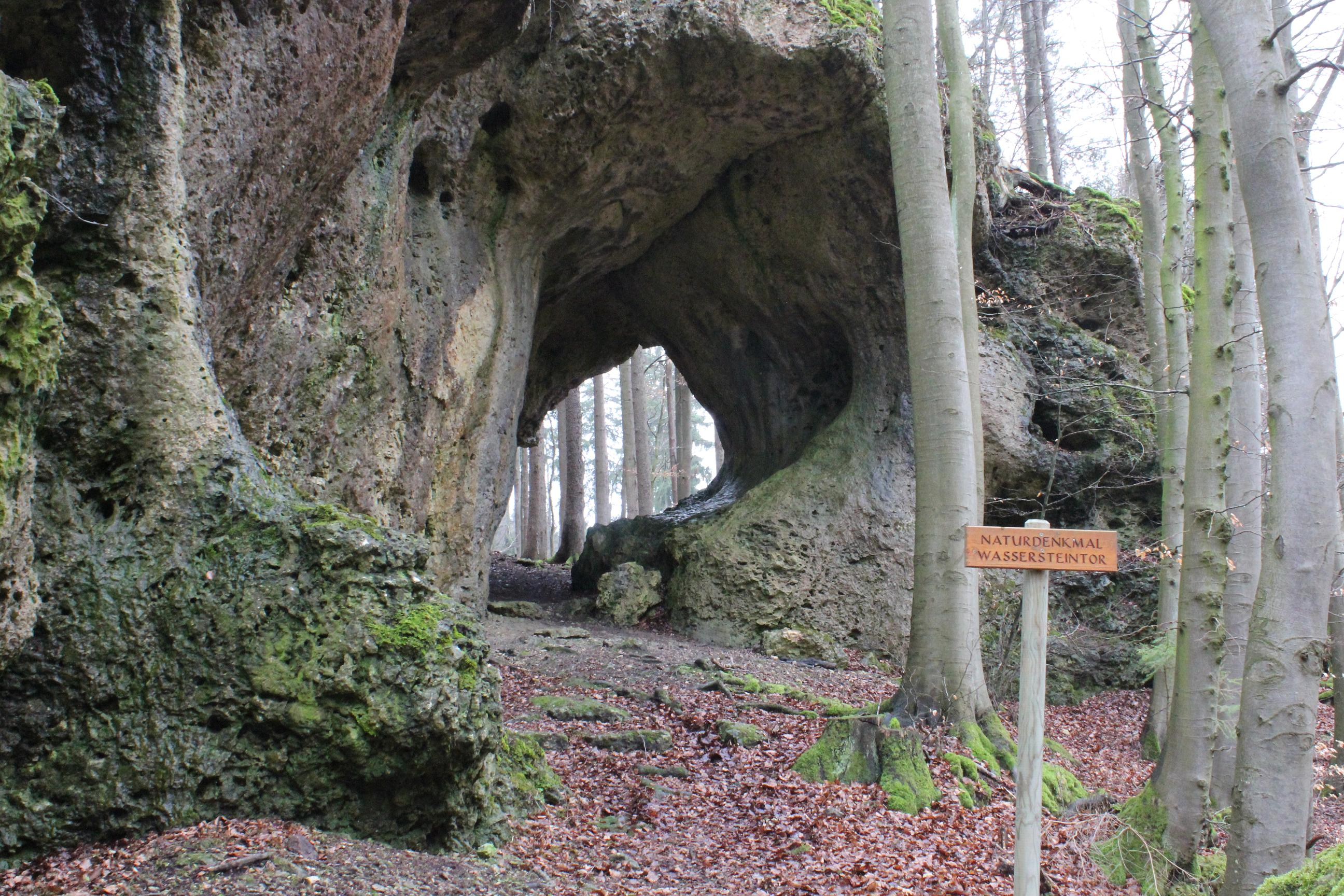 The rock gate “Wassersteintor” near of Betzenstein